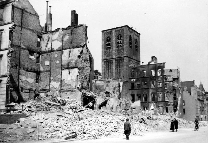 Bombenschäden in Köln 9. 6.42 Pipinstr. Spreng u. Brandbombe Information added by Wikimedia users.